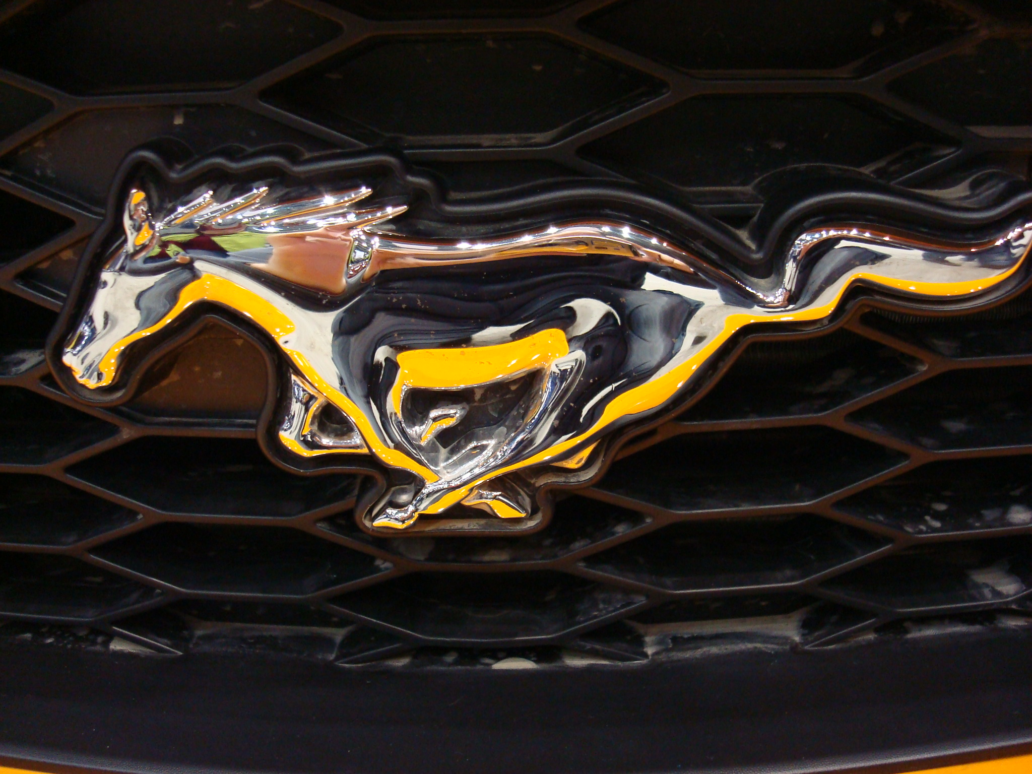 Motorshow 2008